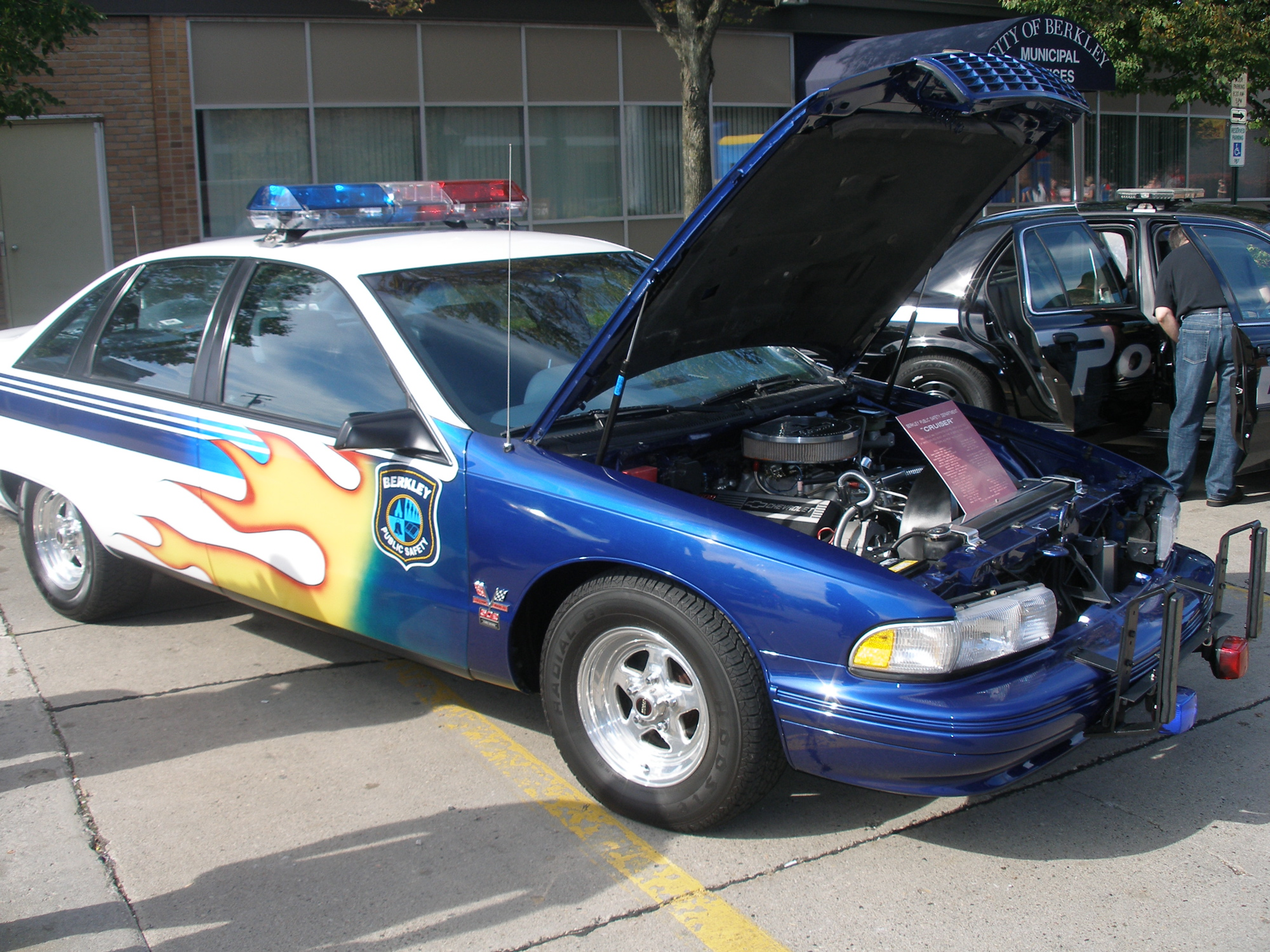 A Custom built Chevy Capice Classic Cop Car. It has a 502 CID V8. It was built by the citizens of Berkley and donated to the police department for use in the Woodward Dream Cruise.